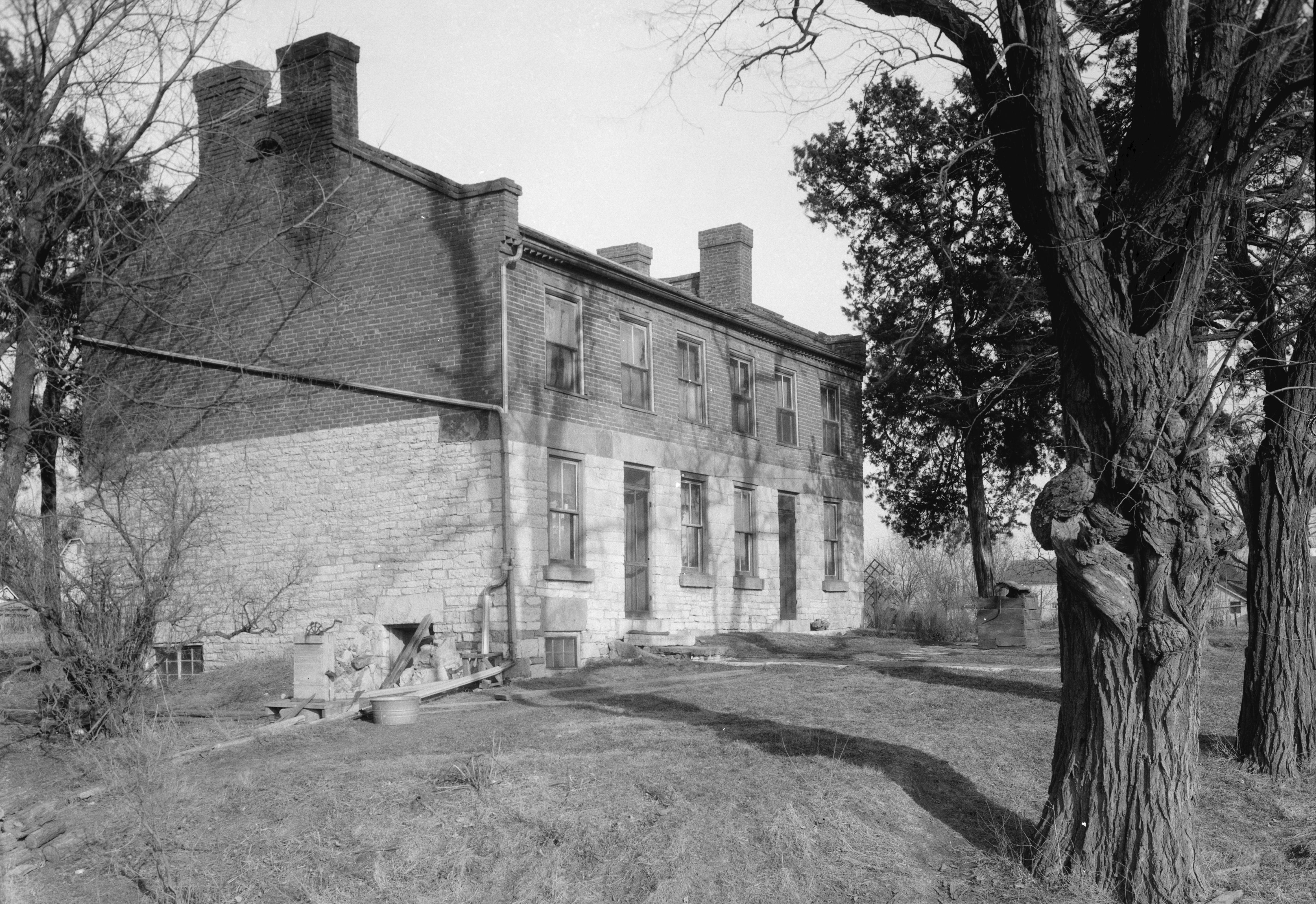 Side of the Franklin Pearson House, located along Dodge Street in Keosauqua, Iowa, United States. Built in 1845, it is listed on the National Register of Historic Places.